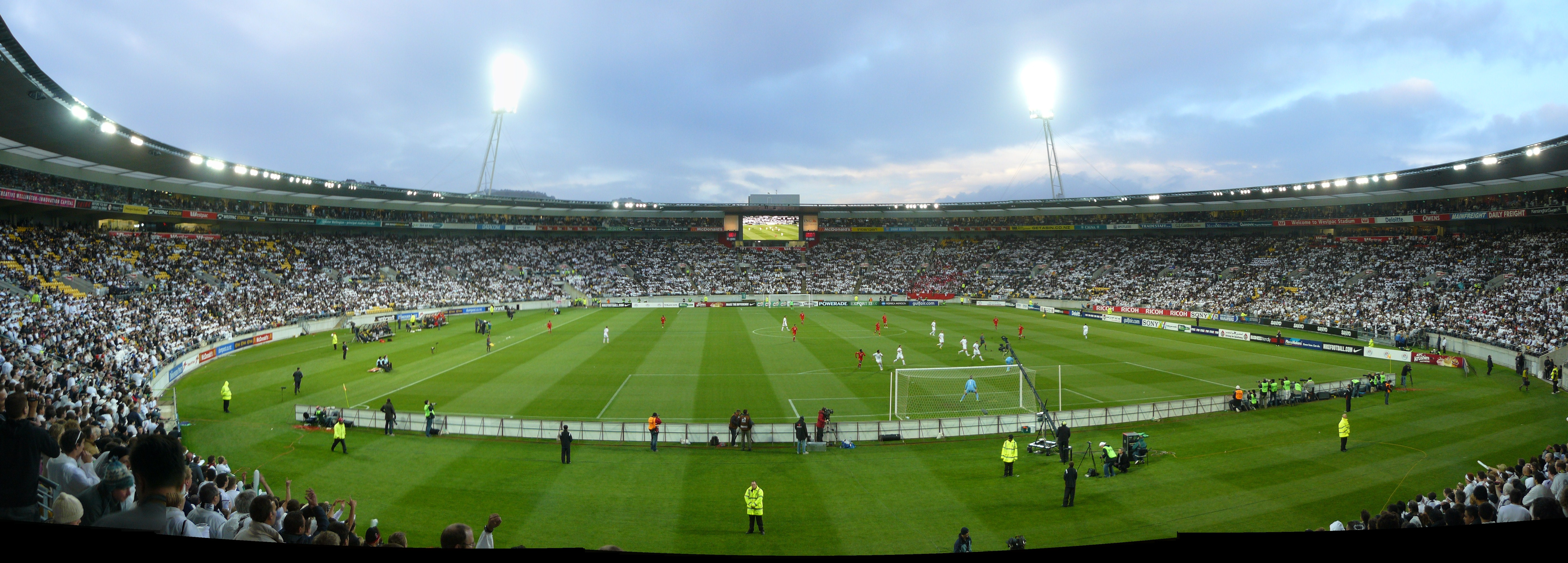 14.11.2009 The Wellington 'Cake Tin' packed full of supporters to see the New Zealand All Whites beat Bahrain and qualify for the 2010 Football World Cup; the first NZ side to qualify since 1982